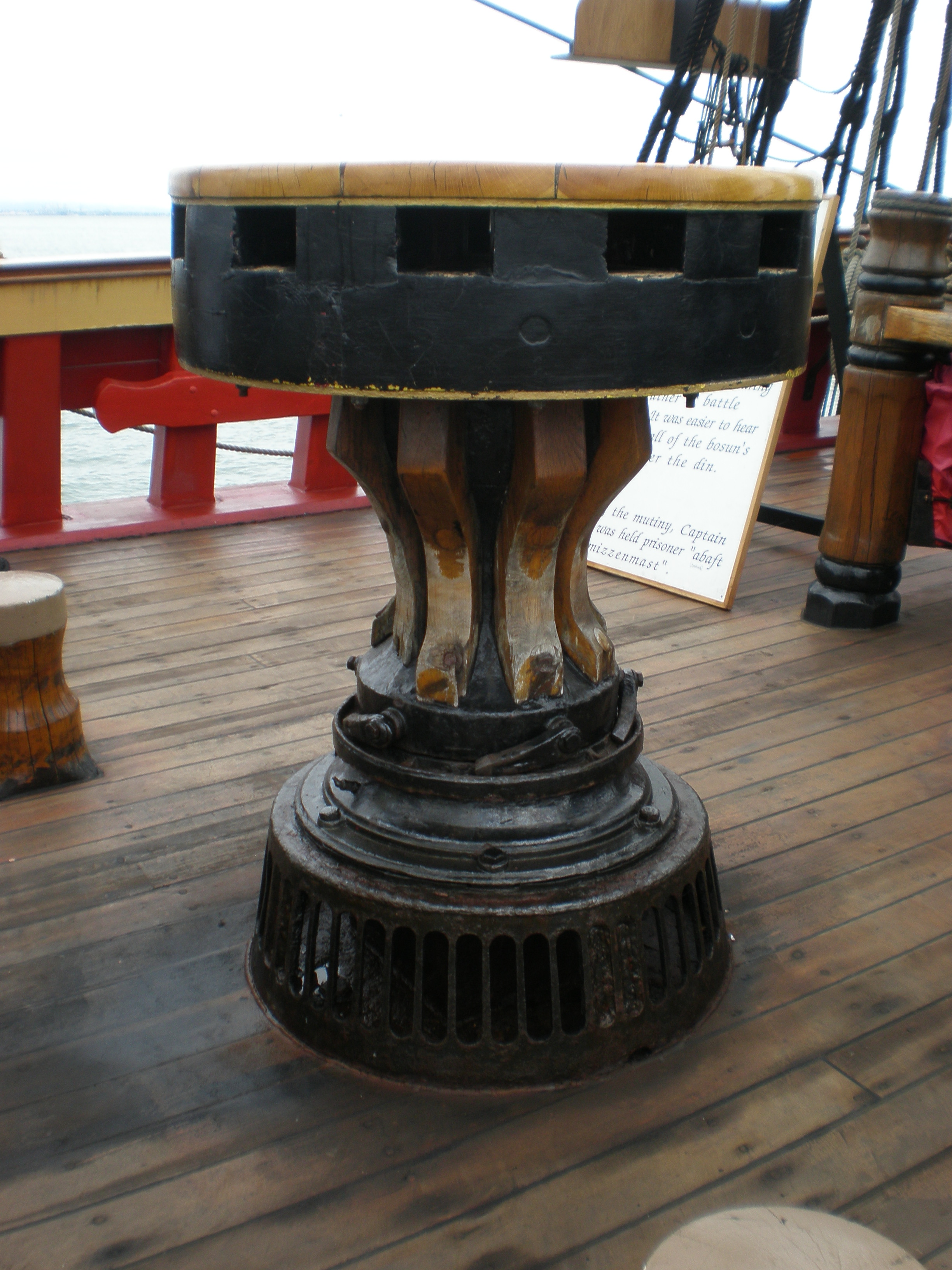 The capstan of the Bounty II, seen while the ship was docked during the Festival of Sail San Francisco 2008.